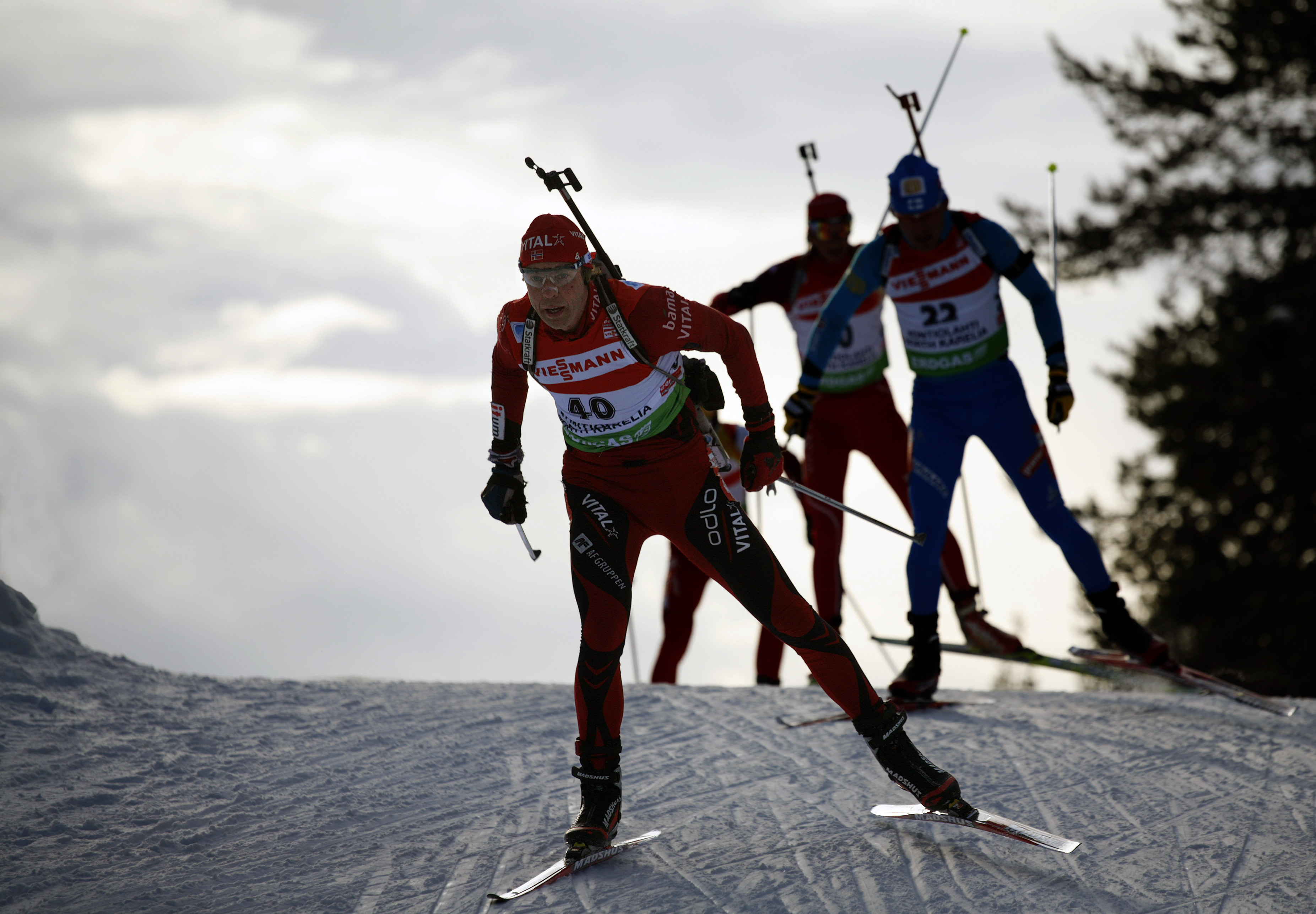 Halvard Hanevold. Men 10 km sprint, 13 march 2010, Kontiolahti.